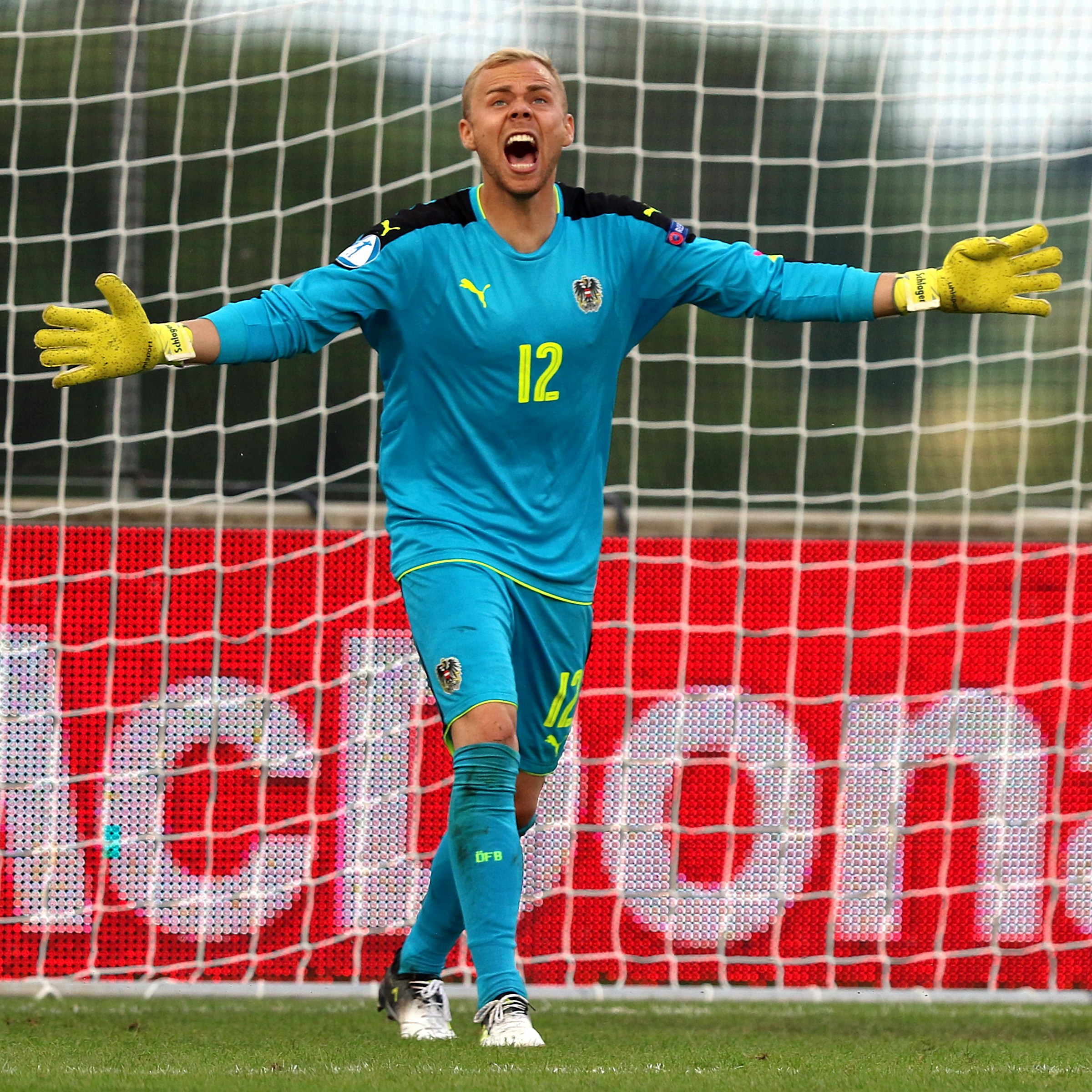 Friendly match: Austria U-21 (red shirts) vs. Hungary U-21 (white shirts) at 12. June 2017 in the Sonnenseestadion in Ritzing 2:1 (1:1) – The photo shows the goalkeeper of Austria U-21 Alexander Schlager (Floridsdorfer AC)